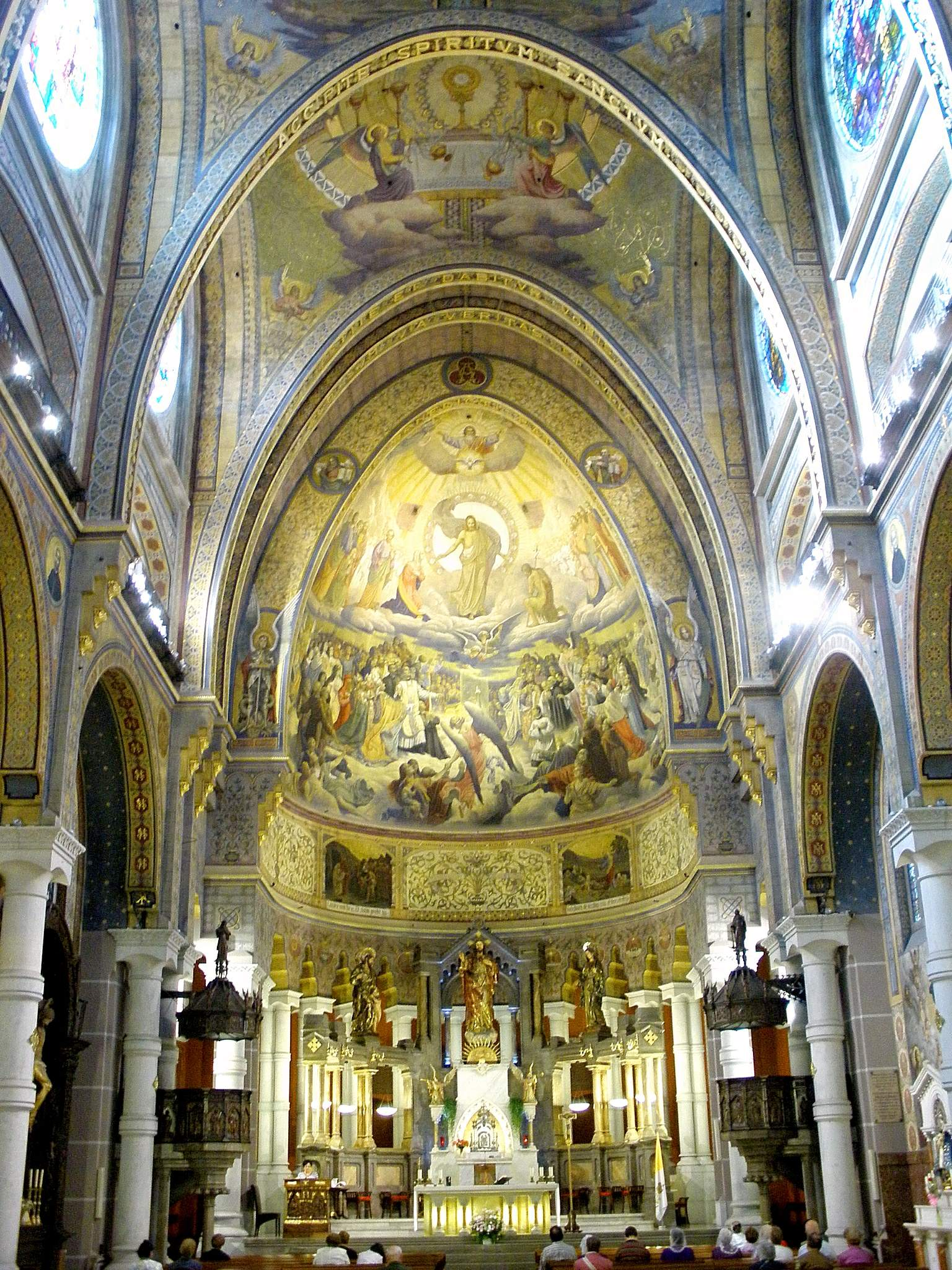 Basílica del Sagrado Corazón de Jesús, Gijón